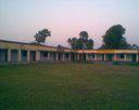 M P T High School